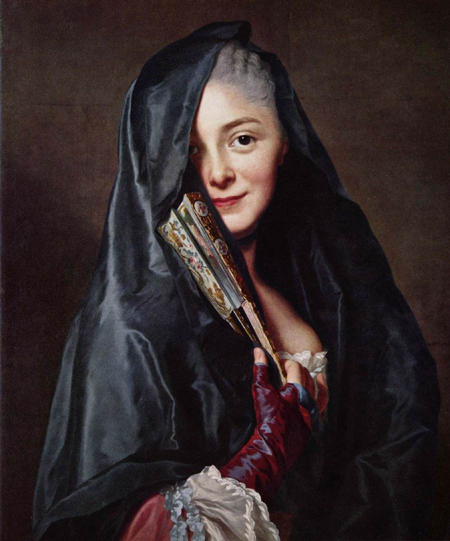 Portrait of Marie-Suzanne Giroust (1734-1772), Roslin's wife and she is dressed "á la Bolognaise", like a woman from Bologna, Italy.